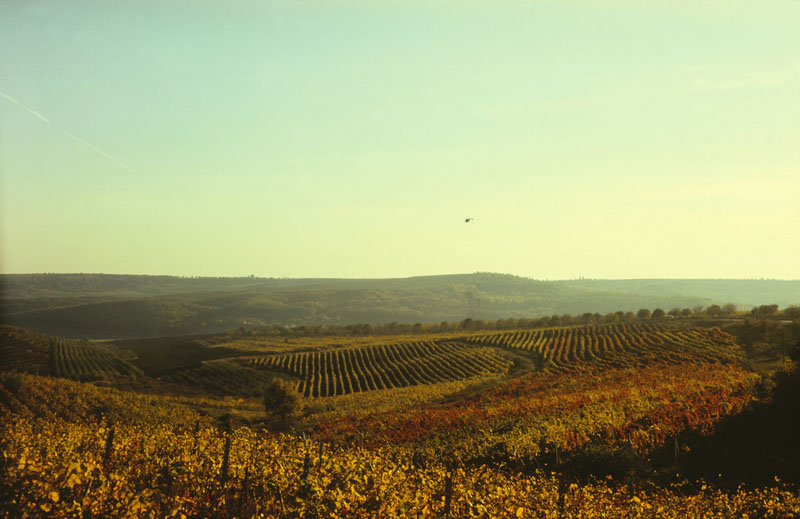 Ialoveni district. The distal portion is visible in the right path that leads to the district center Hancesti (from Chisinau).